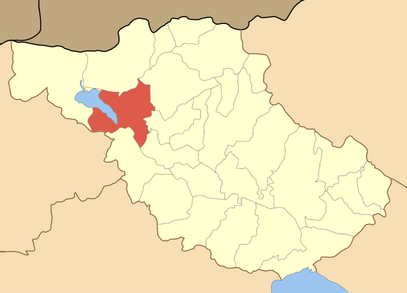 Locator map of Iraklias municipality in Serres perfecture in Greece.